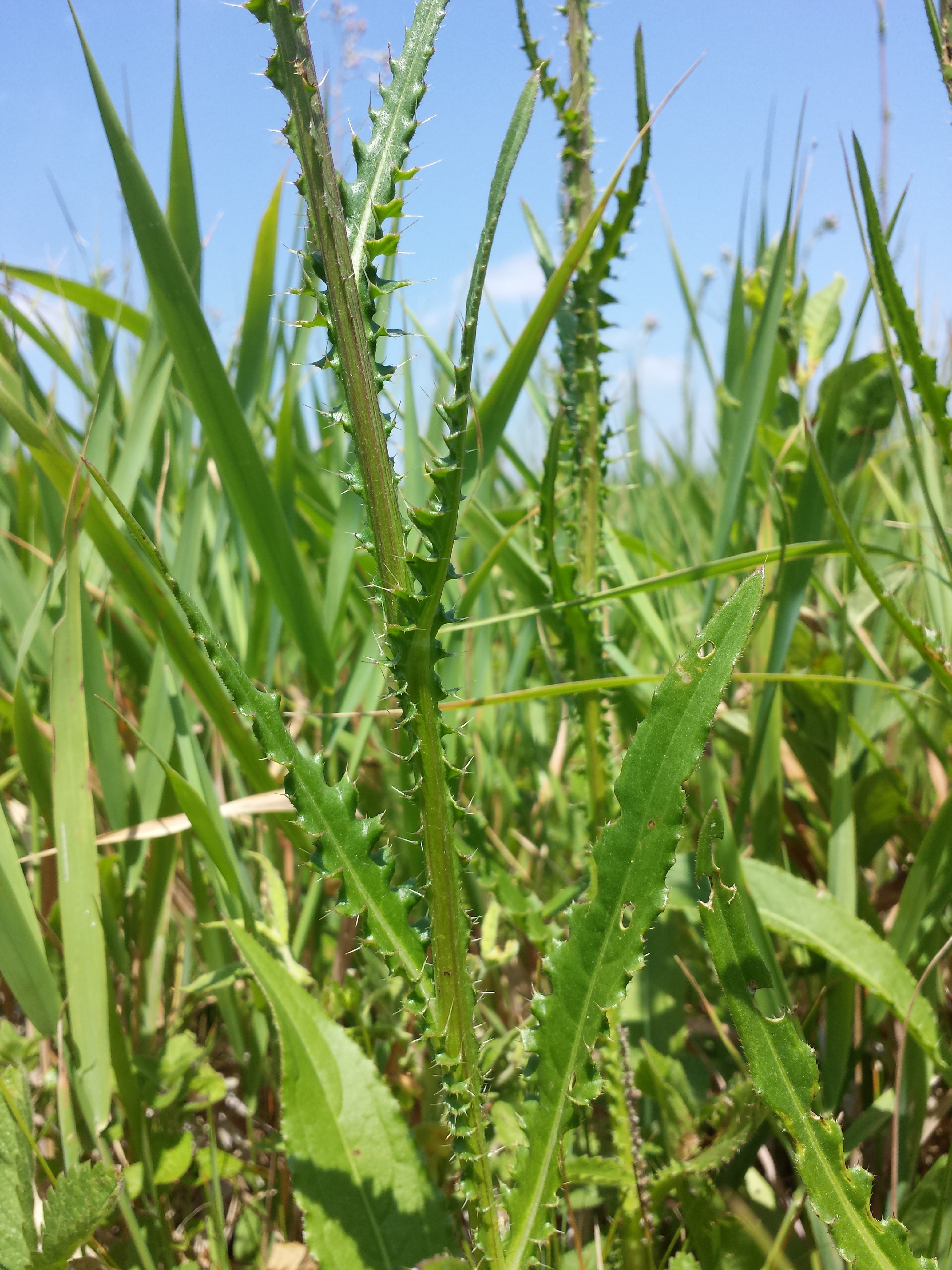 Stem with leaves Taxonym: Cirsium brachycephalum ss Fischer et al. EfÖLS 2008 ISBN 978-3-85474-187-9 Location: Rohrlusswiesen near Gattendorf, district Neusiedl am See, Burgenland, Austria - ca. 130 m a.s.l. Habitat: wet meadows